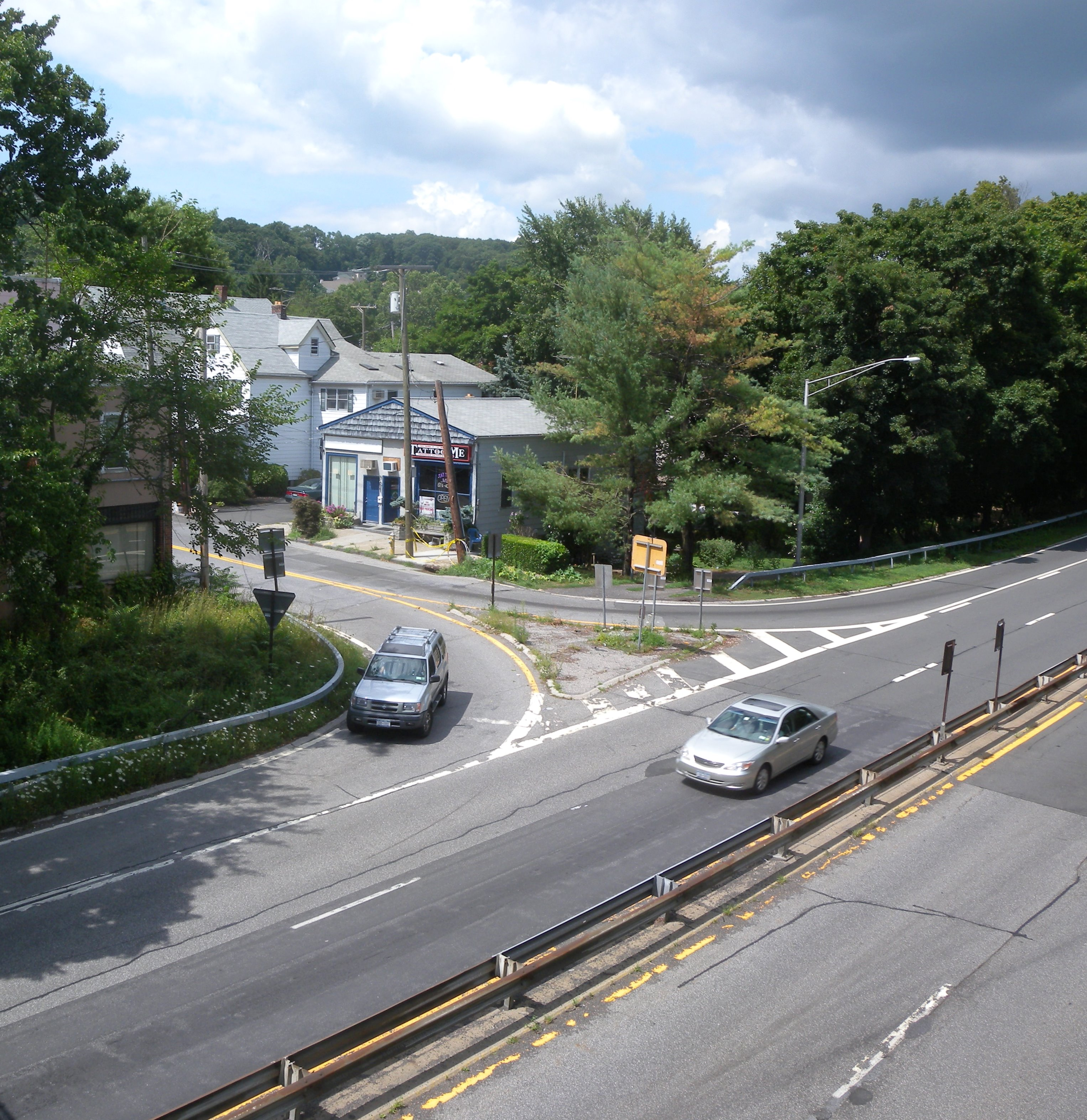 Looking north from Ashford Avenue overpass at soutbound exit of SRMP in Greenburg.